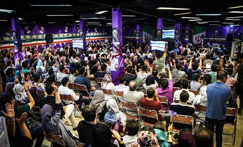 Iranian presidential election debates, 2017